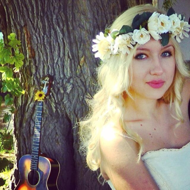 Paloma Lokus promo pic, 2015.